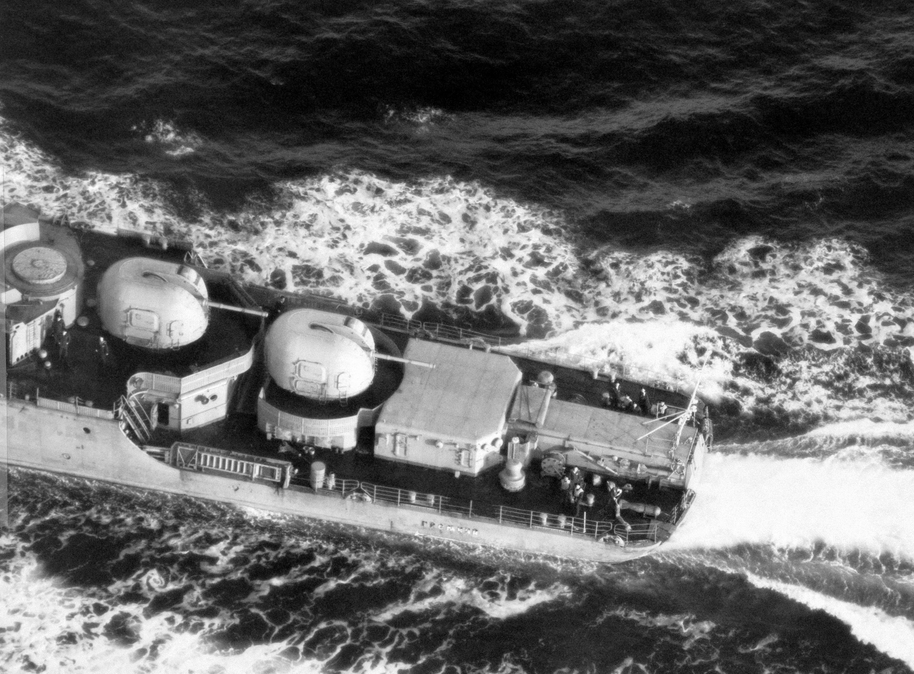 Aerial port view of the afterdeck of a Soviet Krivak II class guided missile frigate showing two single 100 mm dual purpose guns. (SUBSTANDARD)